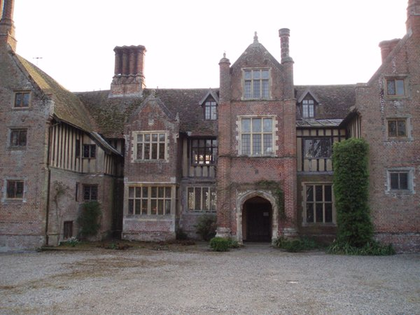 Rainthorpe Hall A Tudor house, a private home and a wedding venue.